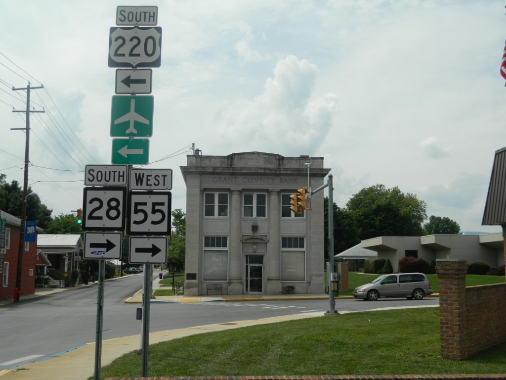 Grant County Bank, North Main Street, Petersburg, West Virginia. August 2012.